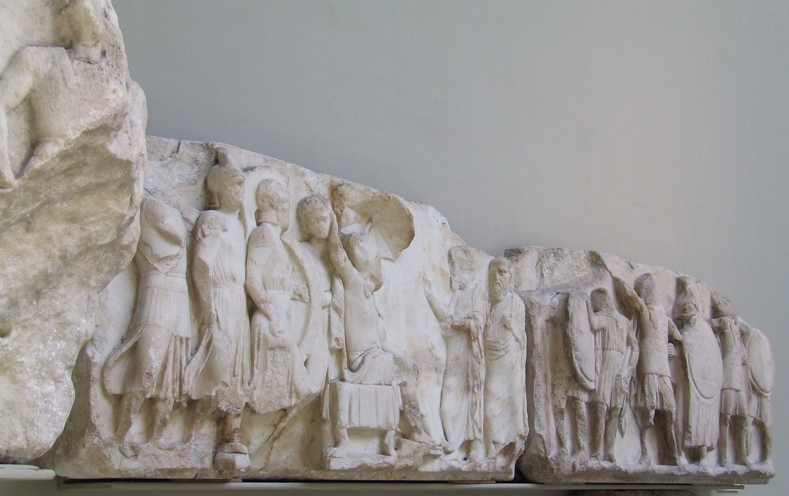 A marble frieze from the Nereid monument showing a Lykian ruler, now in the British Museum